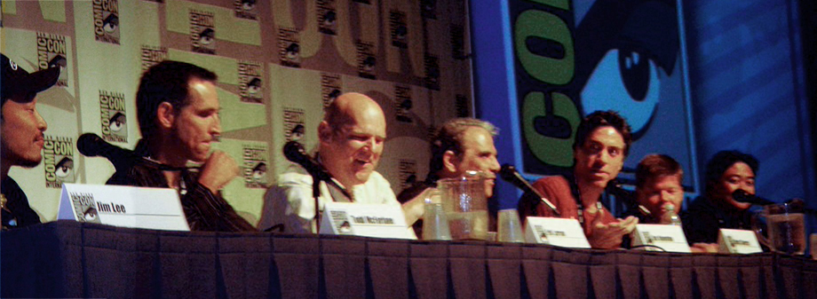 Image Comics panel at San Diego ComicCon 2007.